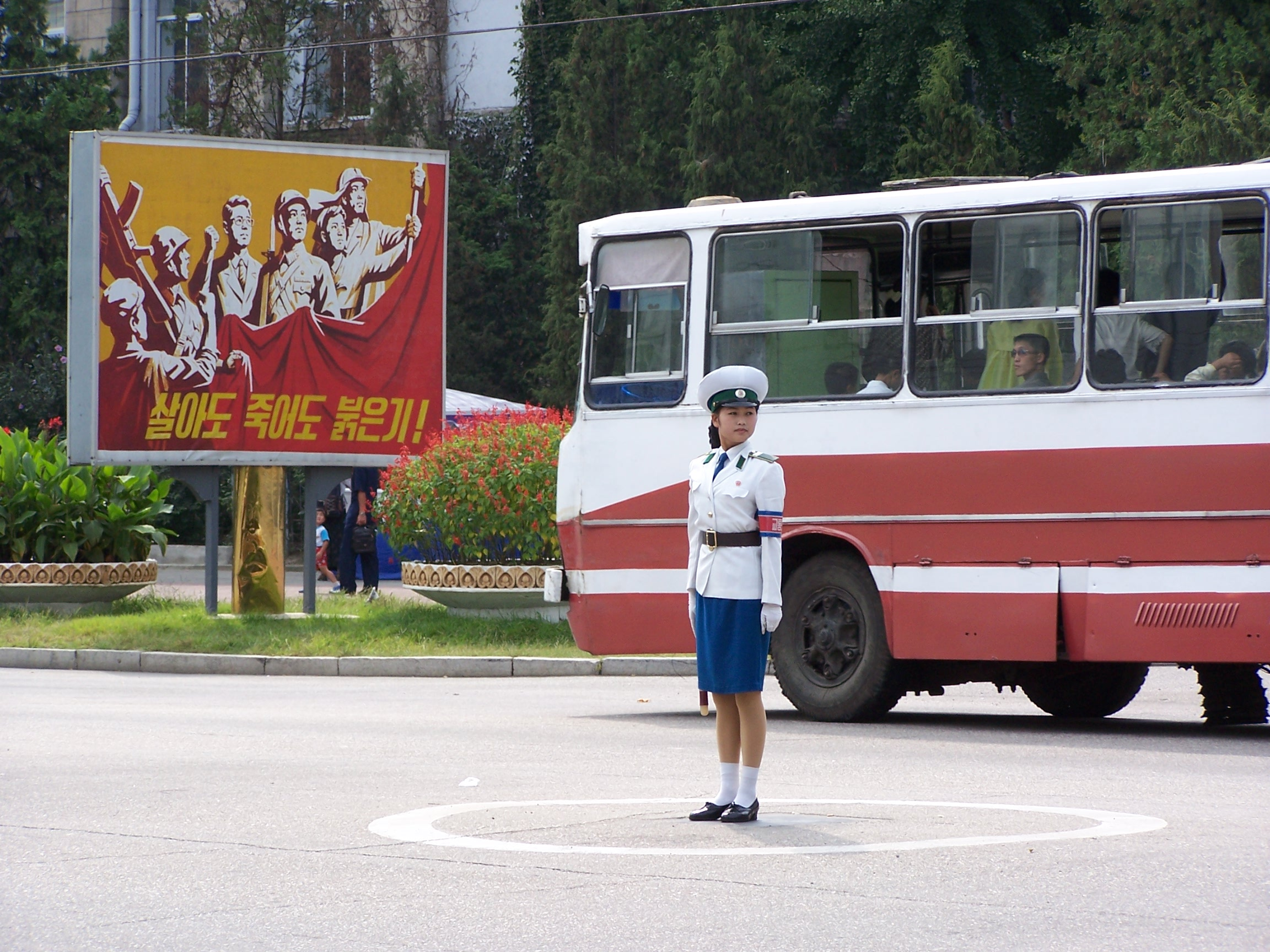 Traffic Lights, North Korea, North Korean Propaganda, Traffic Police, Communism